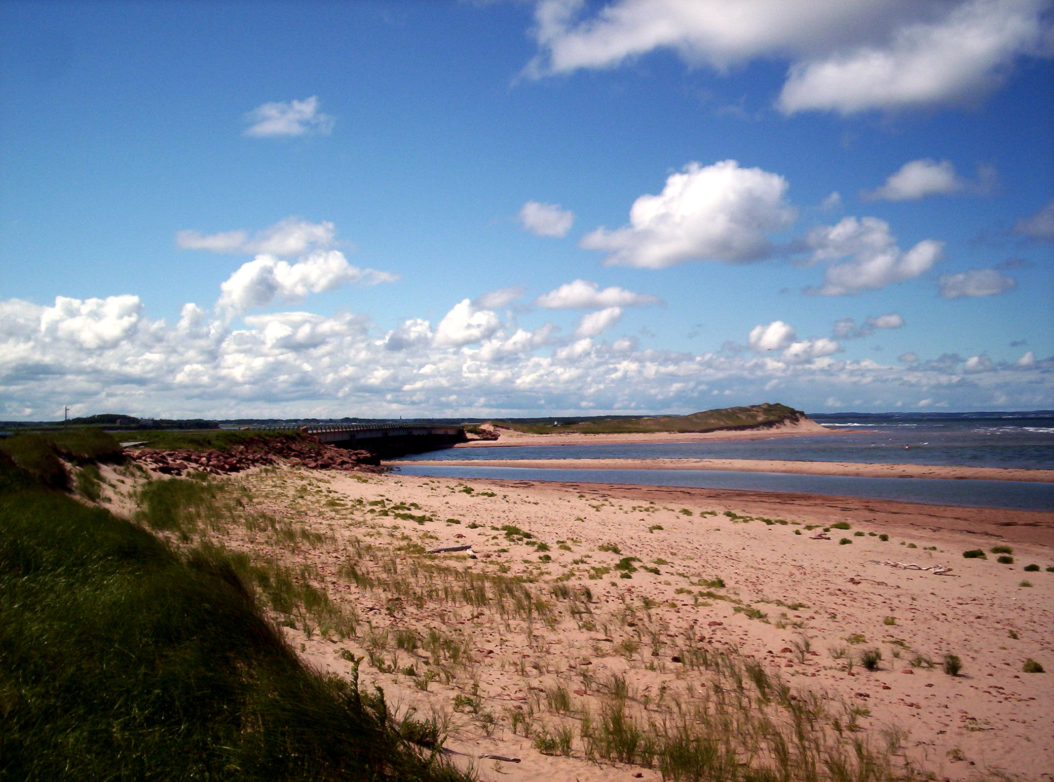 A beach near Stanhope, Prince Edward Island, Canada.